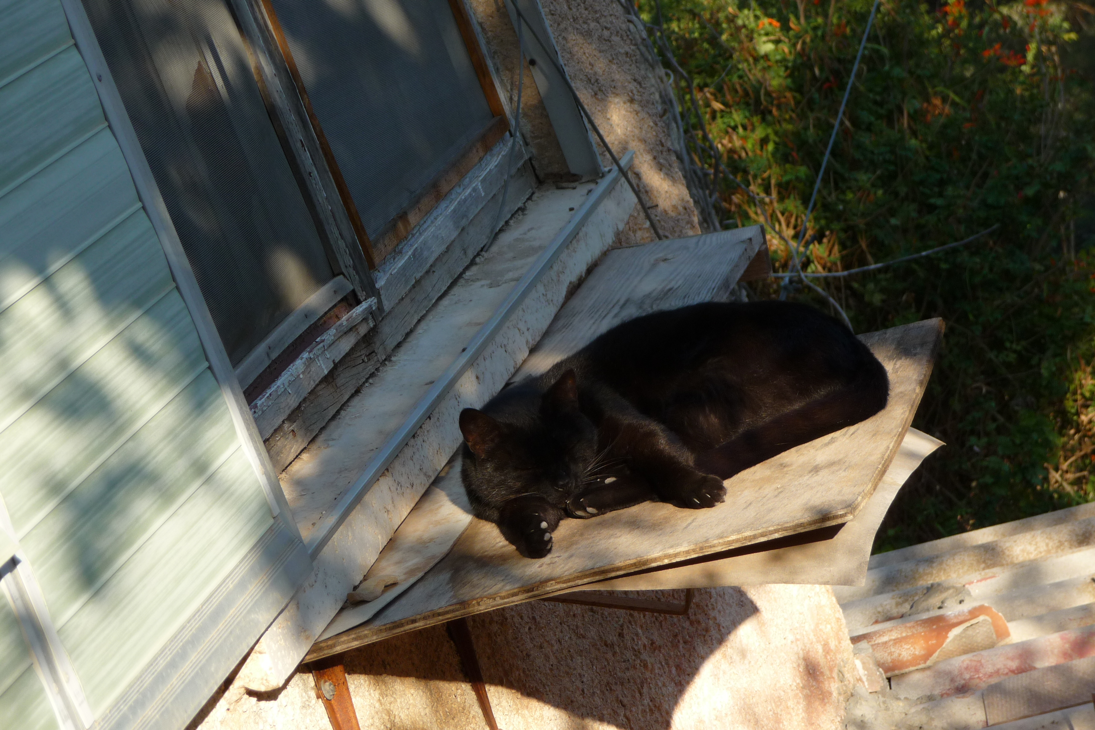 IBet Oren